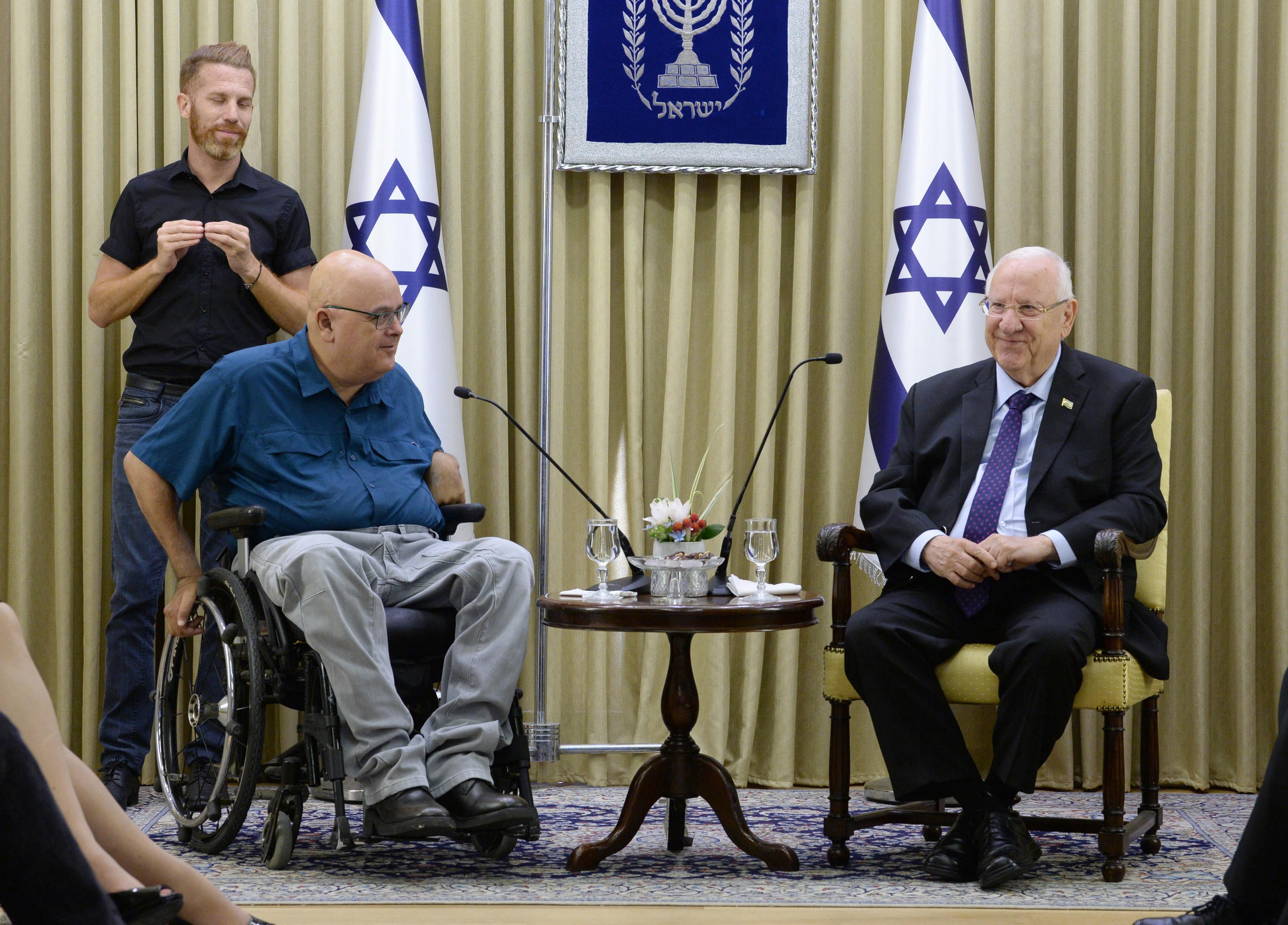 The President of Israel, Reuven Rivlin, marks 20 years for the establishment of «Access Israel». Sunday, July 28, 2019. Credit photo: Mark Neiman / GPO.